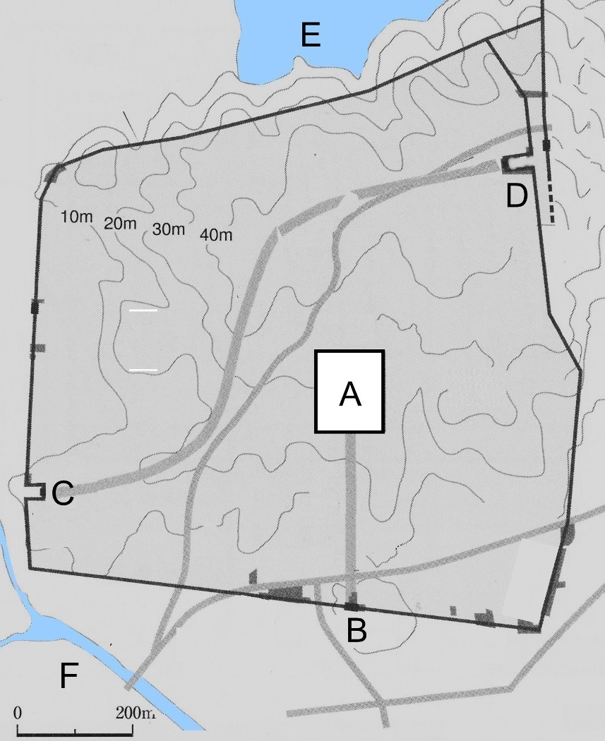 Layout ofTagacastle